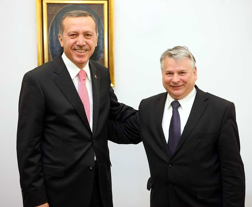 Meeting between Recep Tayyip Erdoğan and Bogdan Borusewicz in Poland.